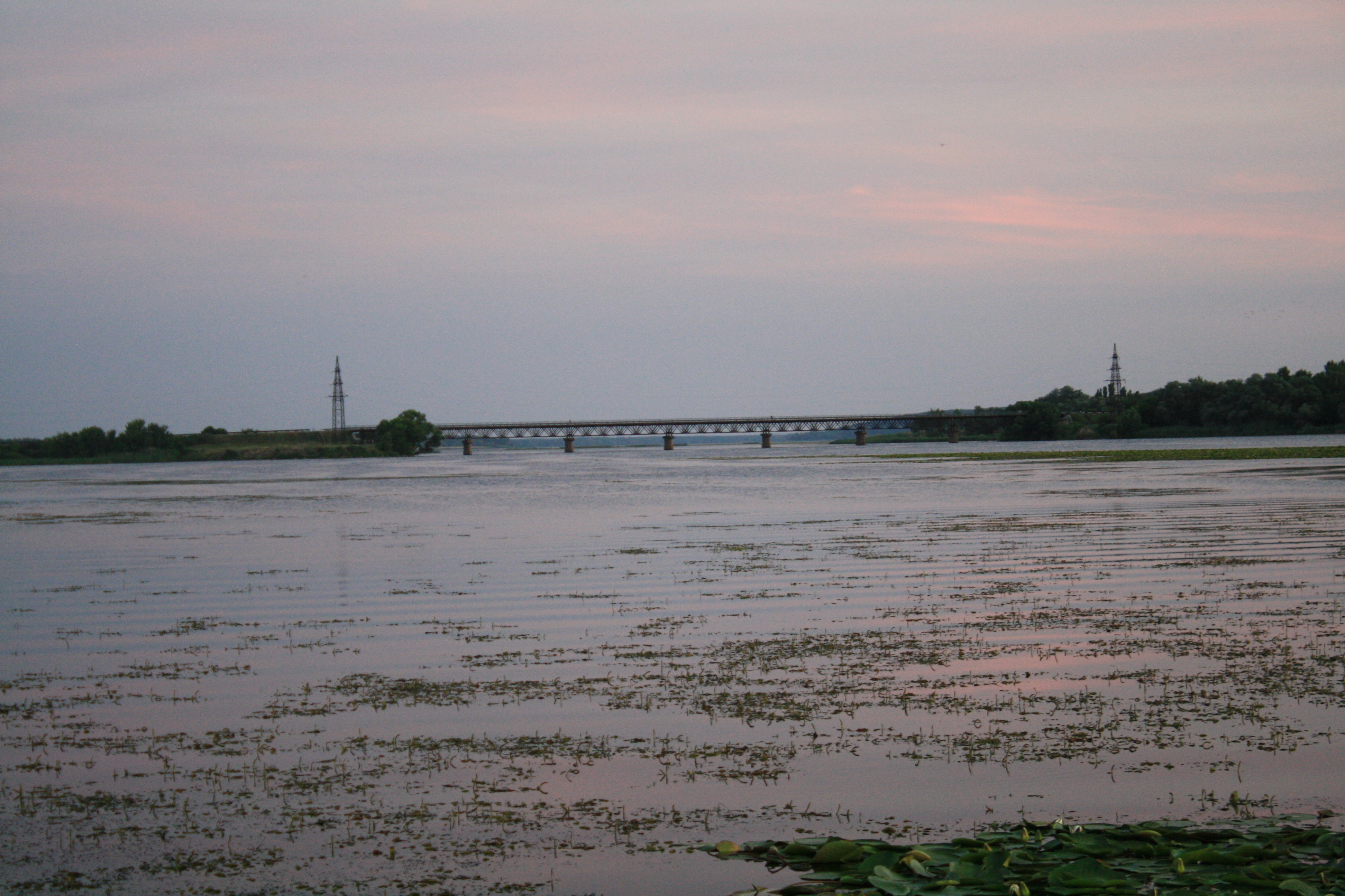 Oskil (Oskol) River near Kruhliakivka, Kharkiv Oblast, Ukraine